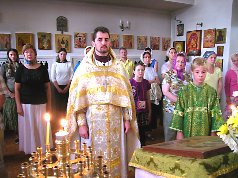 Orthodox worship, Holy Protection Church, Düsseldorf